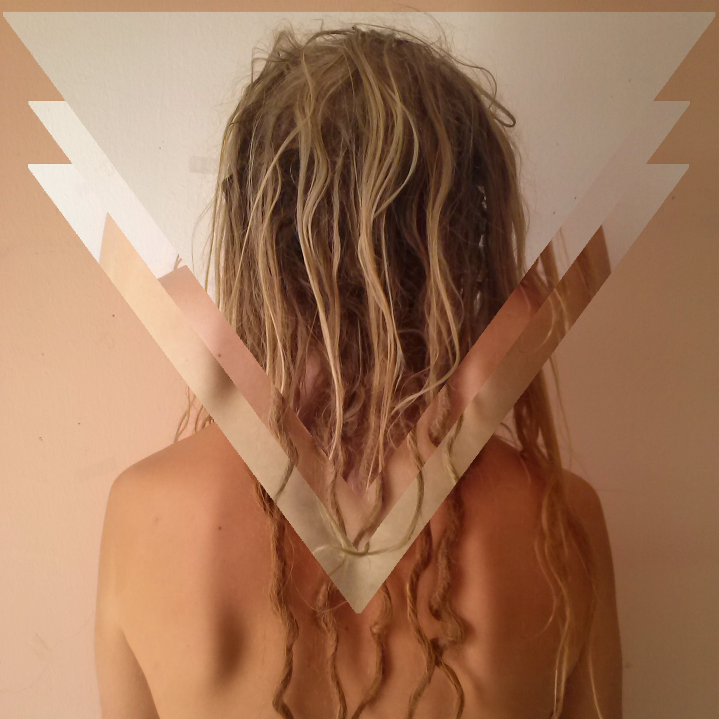 Self-portrait (2013)